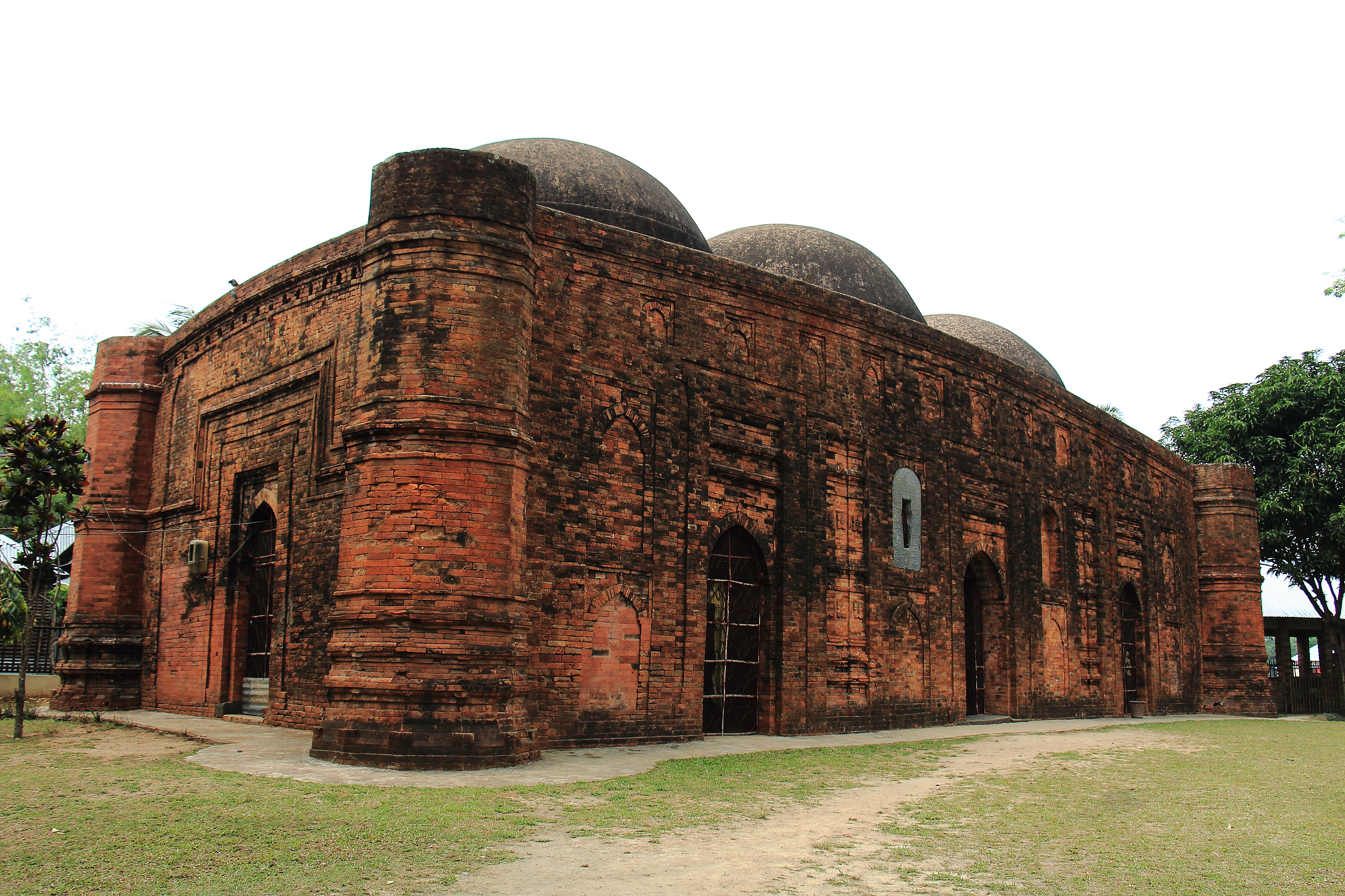 It is an oblong three domed mosque measuring 17.37m X 7.46m, with four octagonal corner towers. The eastern side shows three arched door ways, each bordered within reset angular frame and between the doo ways vertical panels and verity to the plain brick surface. The cornice are curved in the old fashion and below the cornice runs an prezzie of arched panels. The north and south sides have each an arched door way, while the west shows the projection of the central mihrab on the roof there are three hemispherical domes, resting on the side walls. The domes cover three square sections, into which the interior of the mosque is divided by means of lateral arches spraining from the side walls. The phase of transition is formed by a beautiful arrangement of overspilling courses of bricks. The western wall has three semi-circular of the arches are embossed with rosettes, while a leafy pattern decorates the vertical side of the frames. The upper side is crowned with blind melons. The mosque while confirming the Pre-Mughal feature of mosque architecture, anticipates in its planning the later mosques built under the Mughal dispensation. A stone inscription at the mosque records that is was built in the year A.H. 989/A.D.1582 by Mirza Murad Khan Kakshal